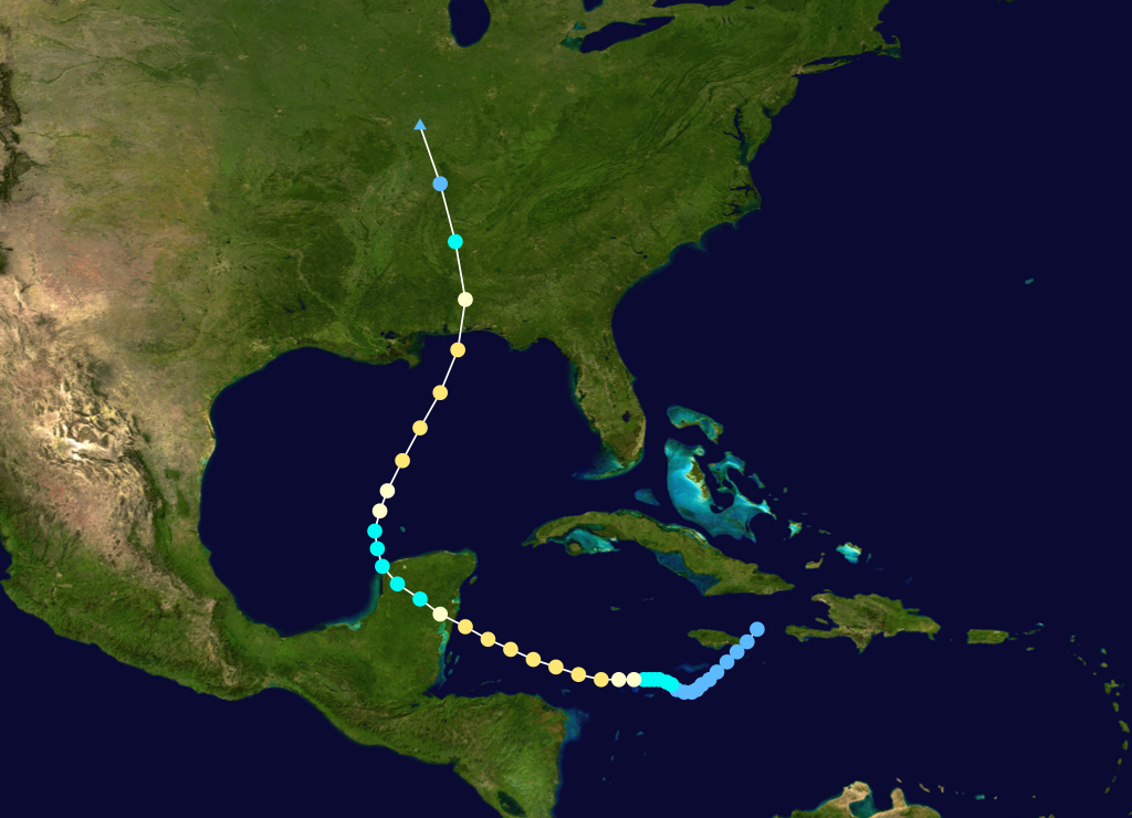 1916 Atlantic hurricane 14 track. Uses the color scheme from the Saffir-Simpson Hurricane Scale.